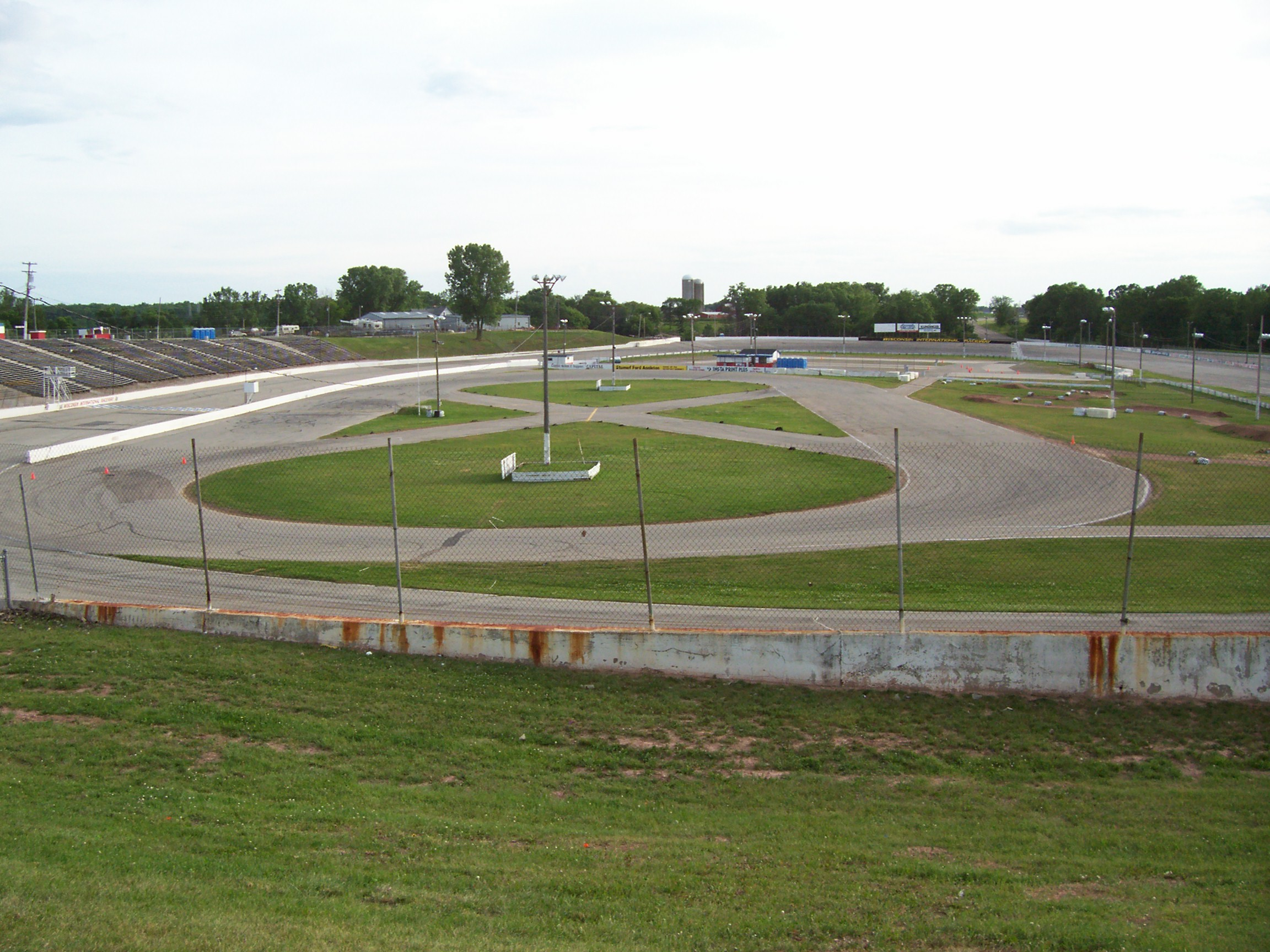 The 1/4 mile oval and Figure 8 tracks, and most of the 1/2 mile oval at Wisconsin International Raceway, taken June 19 en:2006 by myself.